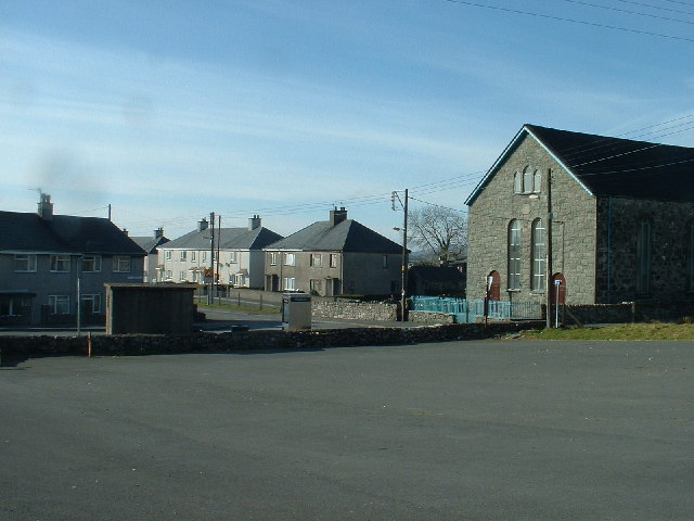 Garndolbenmaen village centre. The village is in a charming location, but has some surprisingly 'ordinary' housing.